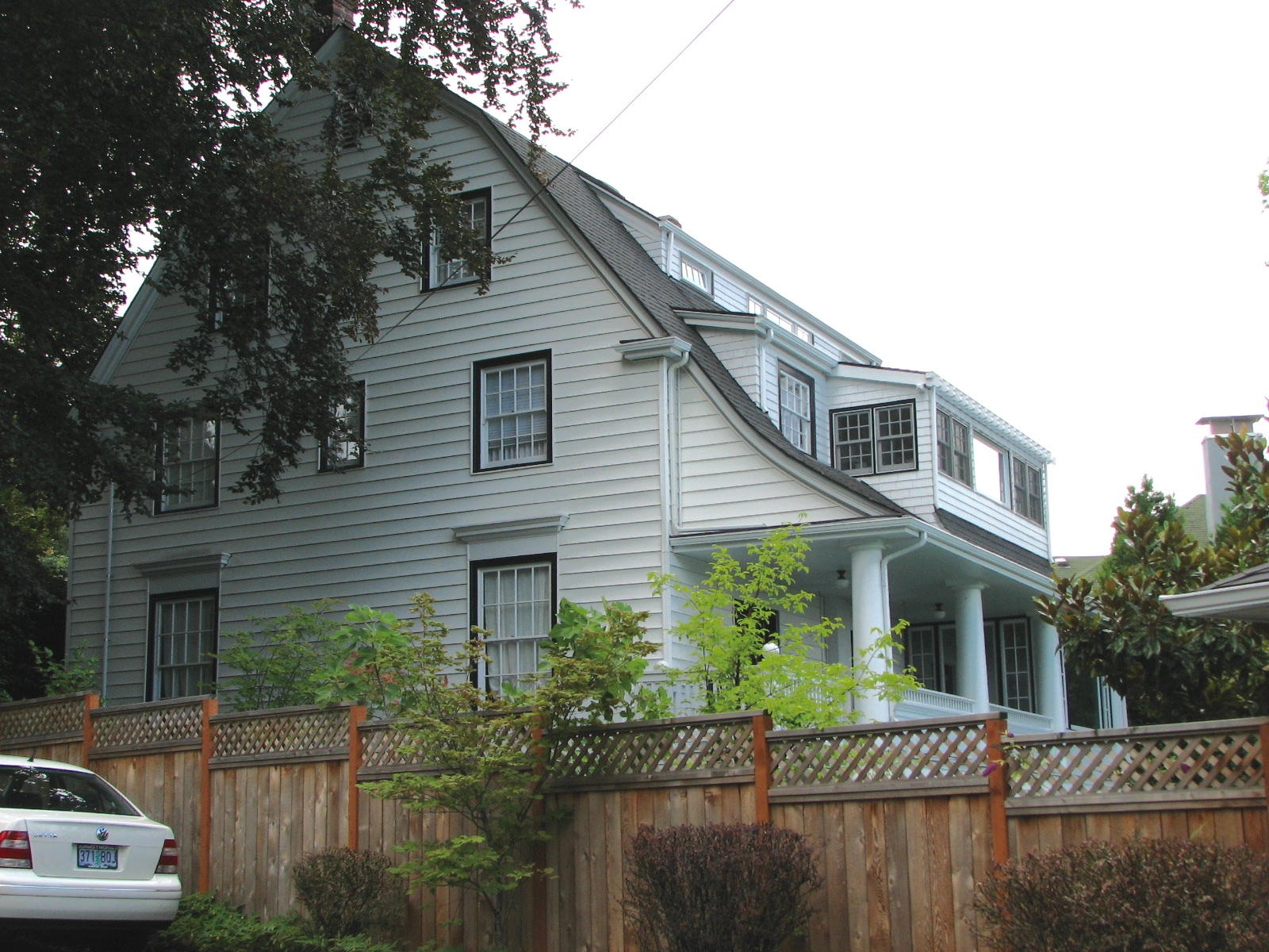 The historic William H. Lewis Model House (built 1911), located at 2877 Northwest Westover Road in Portland, Oregon, United States, is listed on the US National Register of Historic Places.